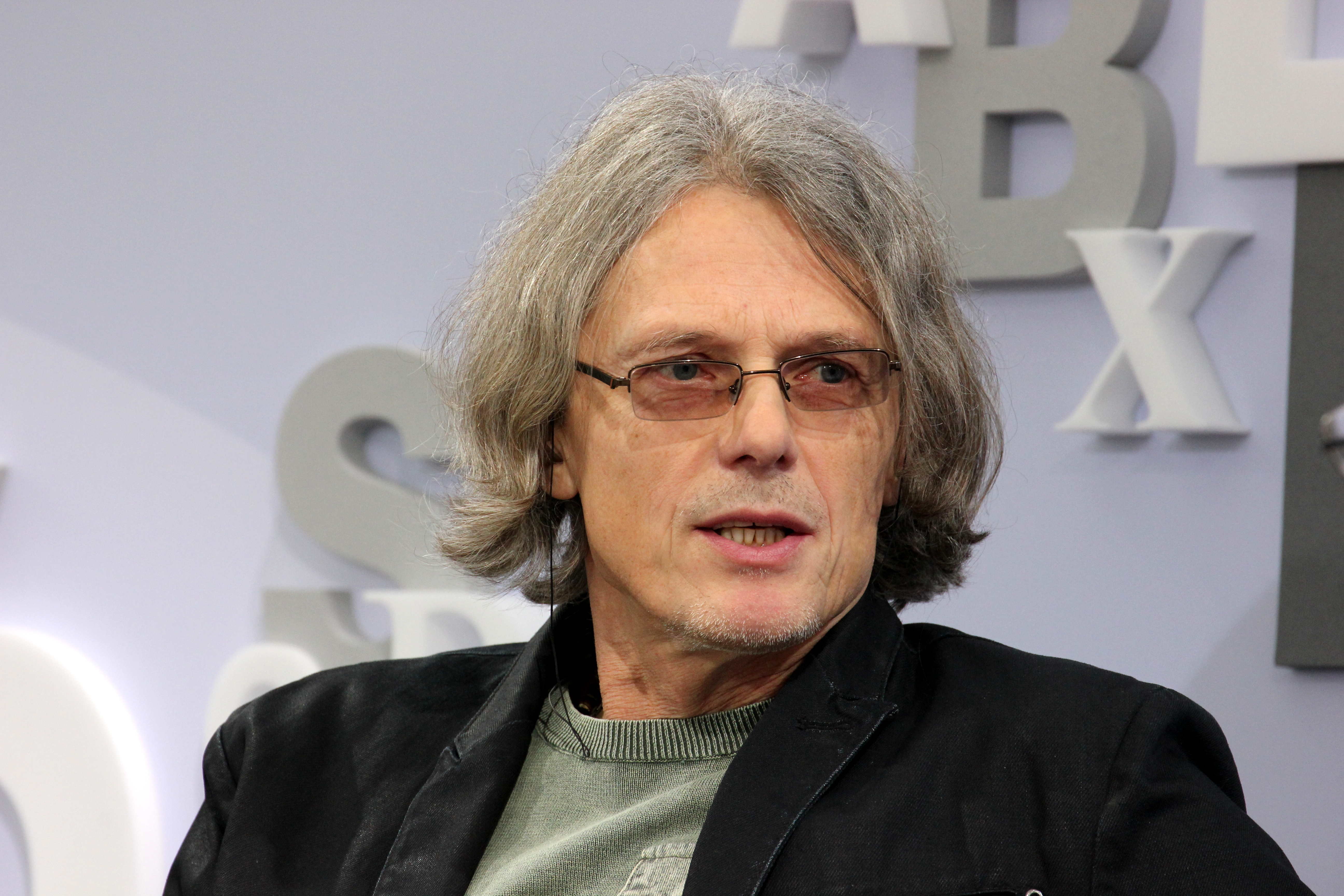 Eugenijus Ališanka Leipzig Book Fair 2017